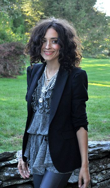 Actress Zrinka Cvitesic attends 18th Annual Hamptons International Film Festival Chairman's Reception on October 9, 2010 at the home of Stuart Suna in East Hampton, New York.